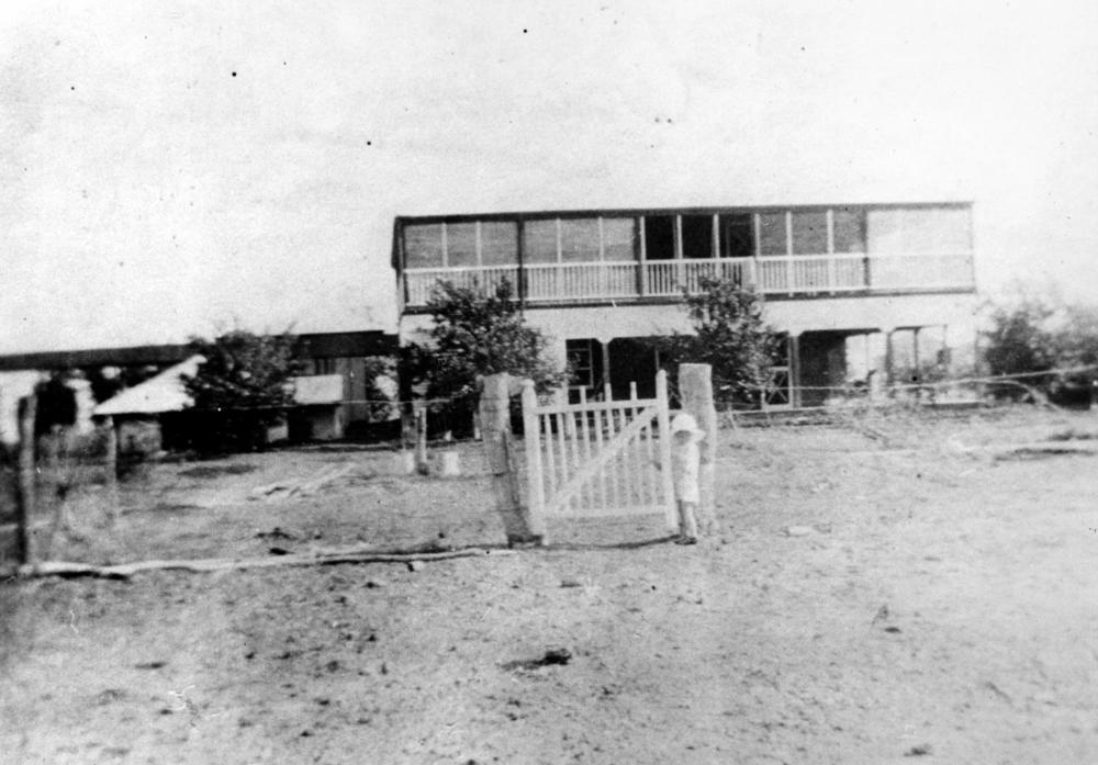 Austral Downs Station homestead, ca. 1930 Situated west of Mount Isa on the Queensland-Northern Territory border.